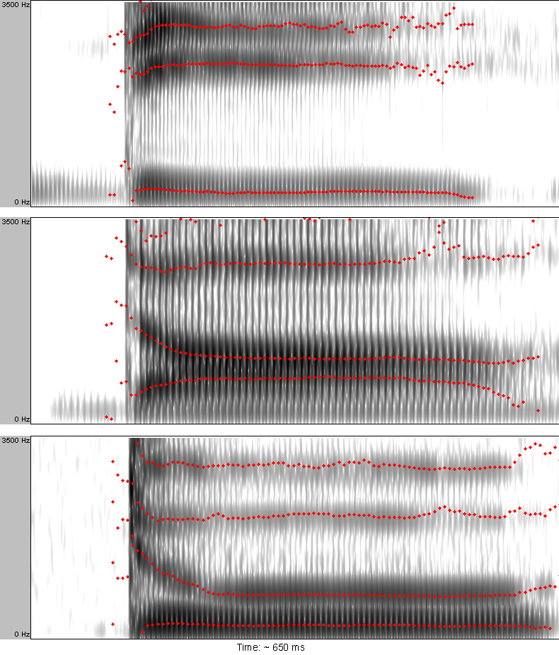 Spectrograms of the syllables "dee", "dah", and "doo". The initial formant transitions (formants are highlighted in red) defining the phoneme /d/ demonstrate that apparently different acoustic events result in the same percept.